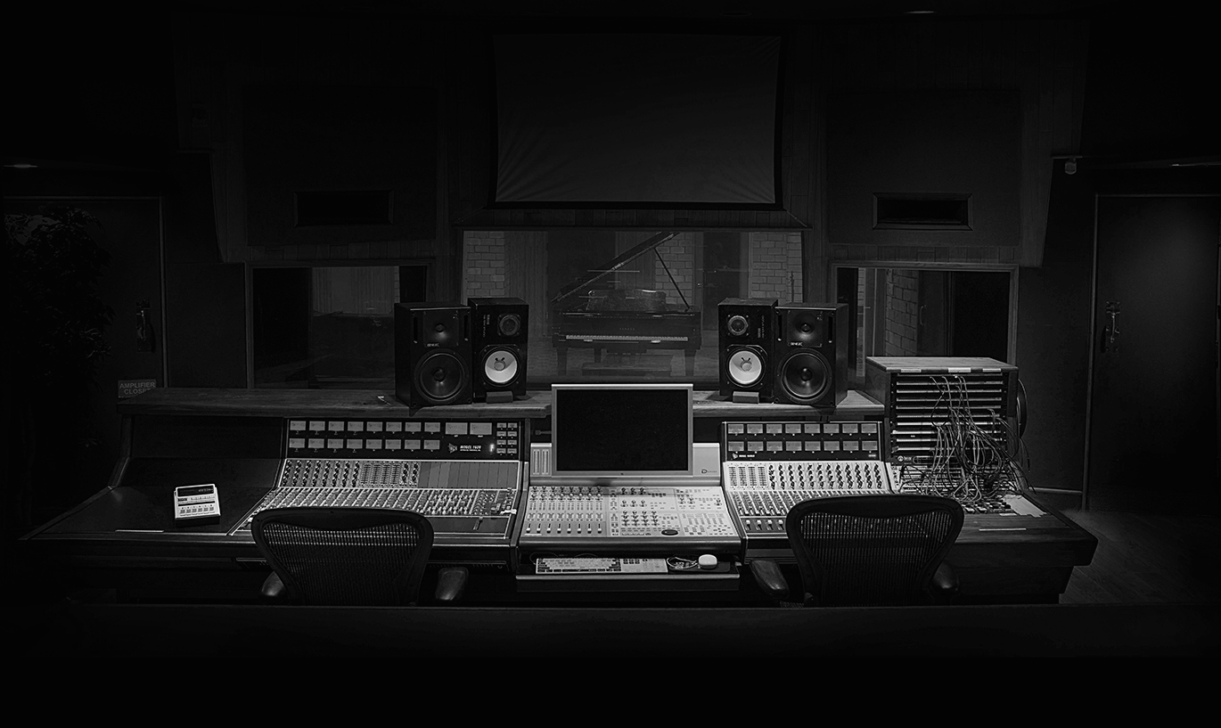 Signature Sound Studio A